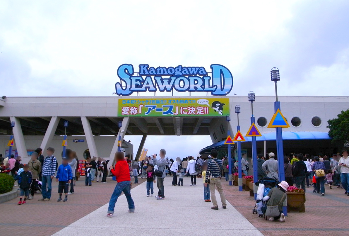 Kamogawa Sea World in Kamogawa, Chiba, Japan.